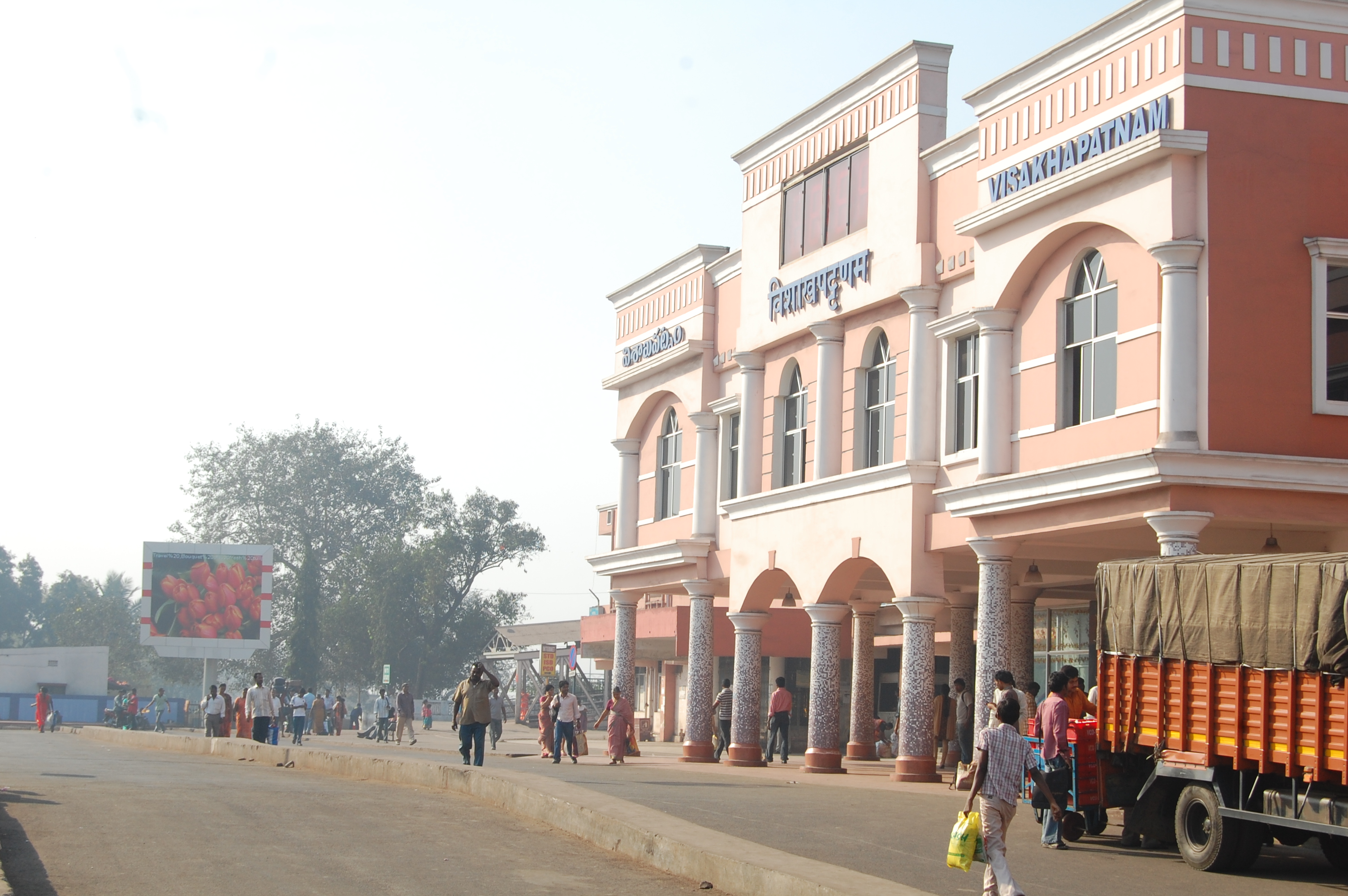 A look at the main entrance of the Visakhapatnam railway station